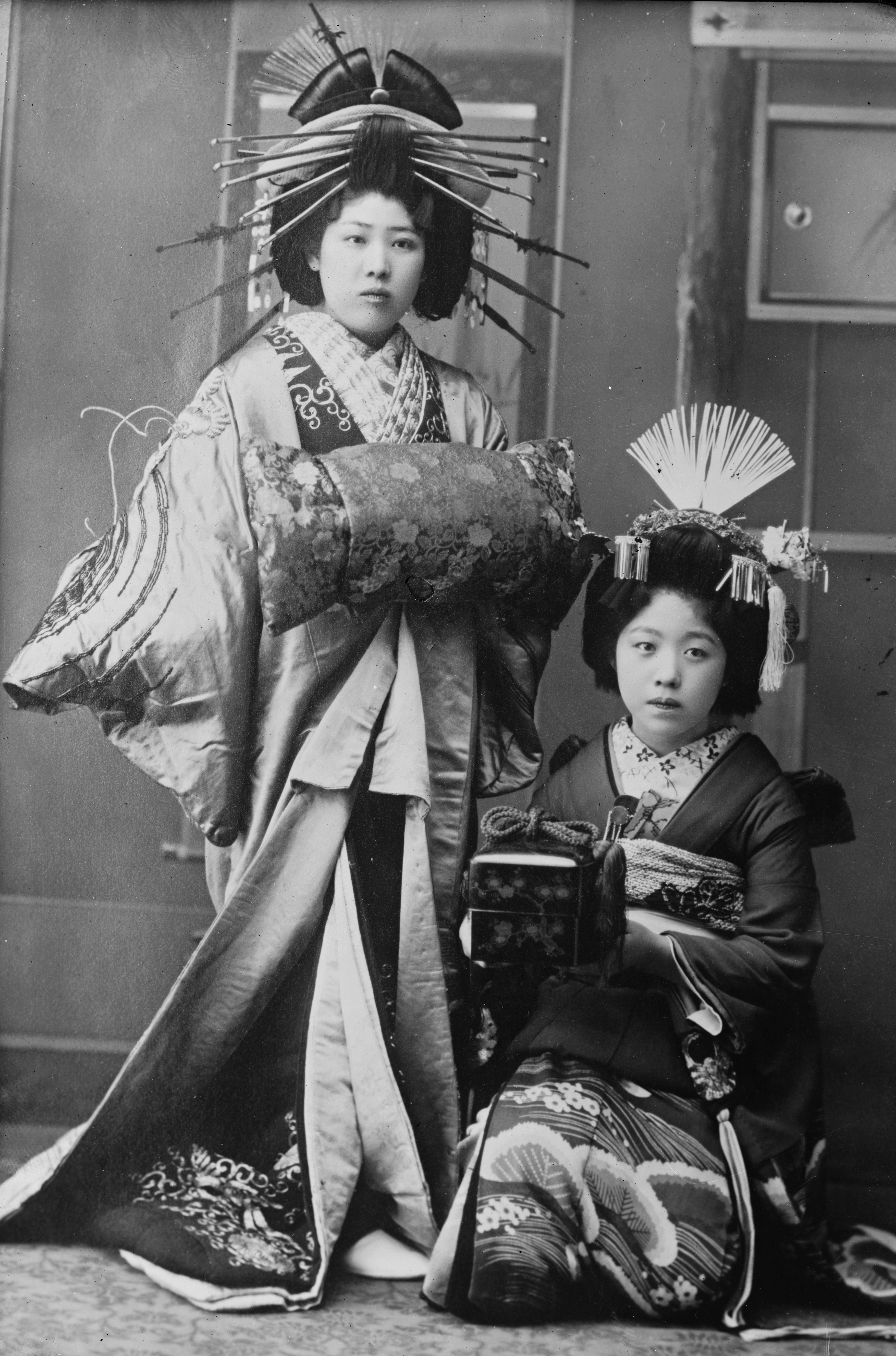 "Geisha girls" An oiran with attendant girl, ca. 1920s